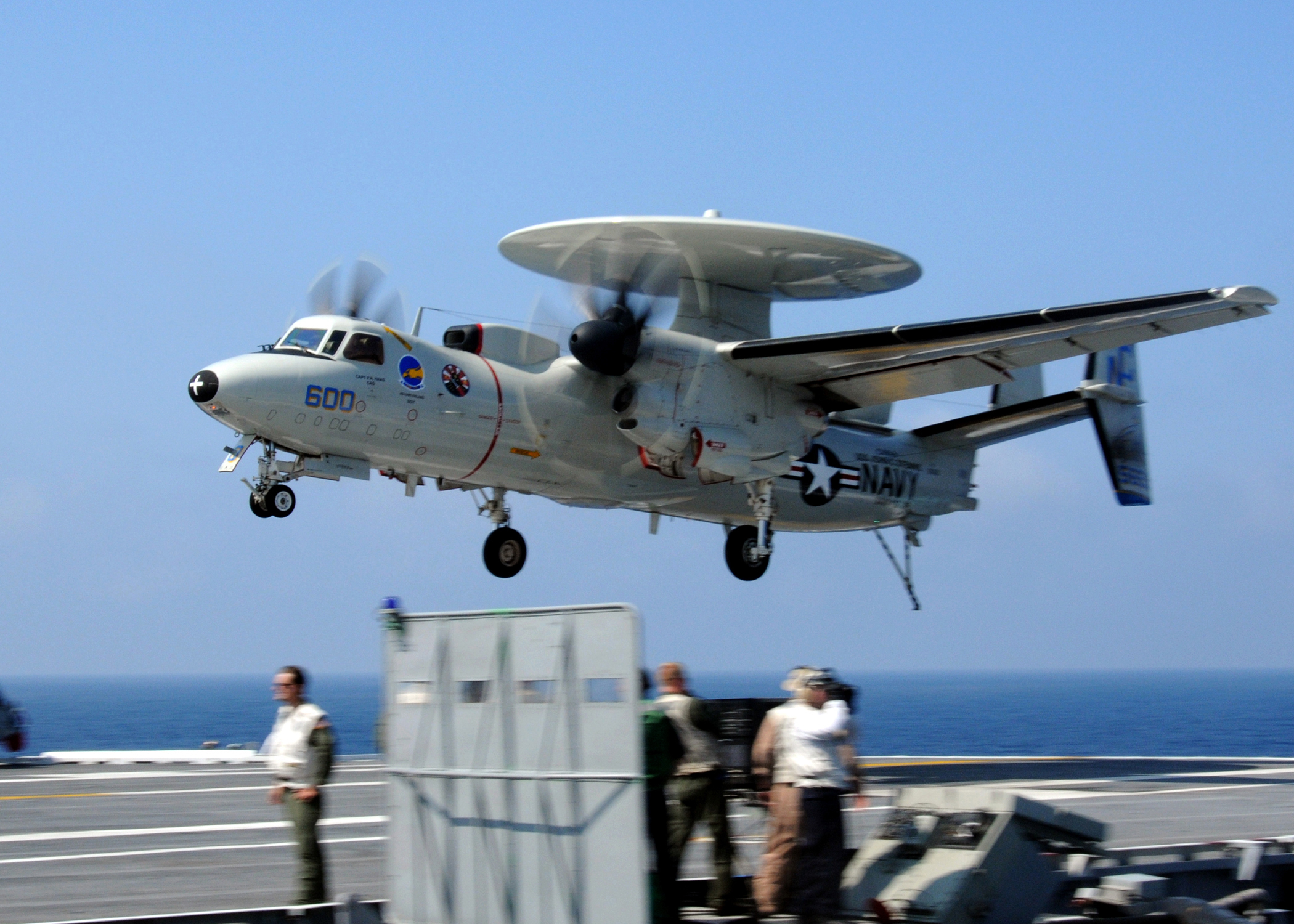 ATLANTIC OCEAN (July 15, 2010) An E2-C Hawkeye assigned to the Bear Acres of Carrier Airborne Early Warning Squadron (VAW) 124 prepares to land aboard the aircraft carrier USS George H.W. Bush (CVN 77). George H.W. Bush is conducting training in the Atlantic Ocean. (U.S. Navy photo by Naval Air Crewman 3rd Class Joshua Horton/Released)